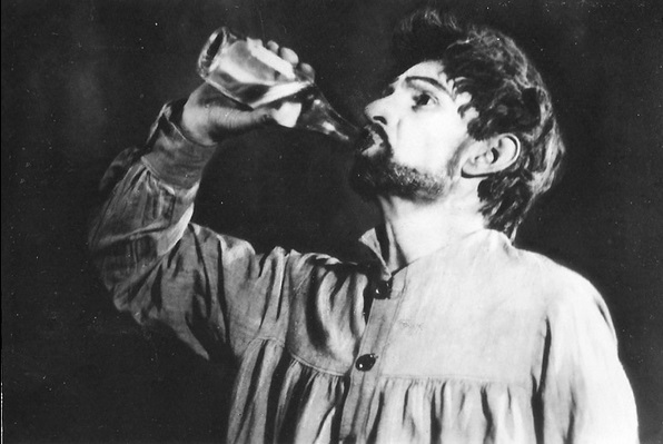 Sharifzade in Jabbarly's Aydin